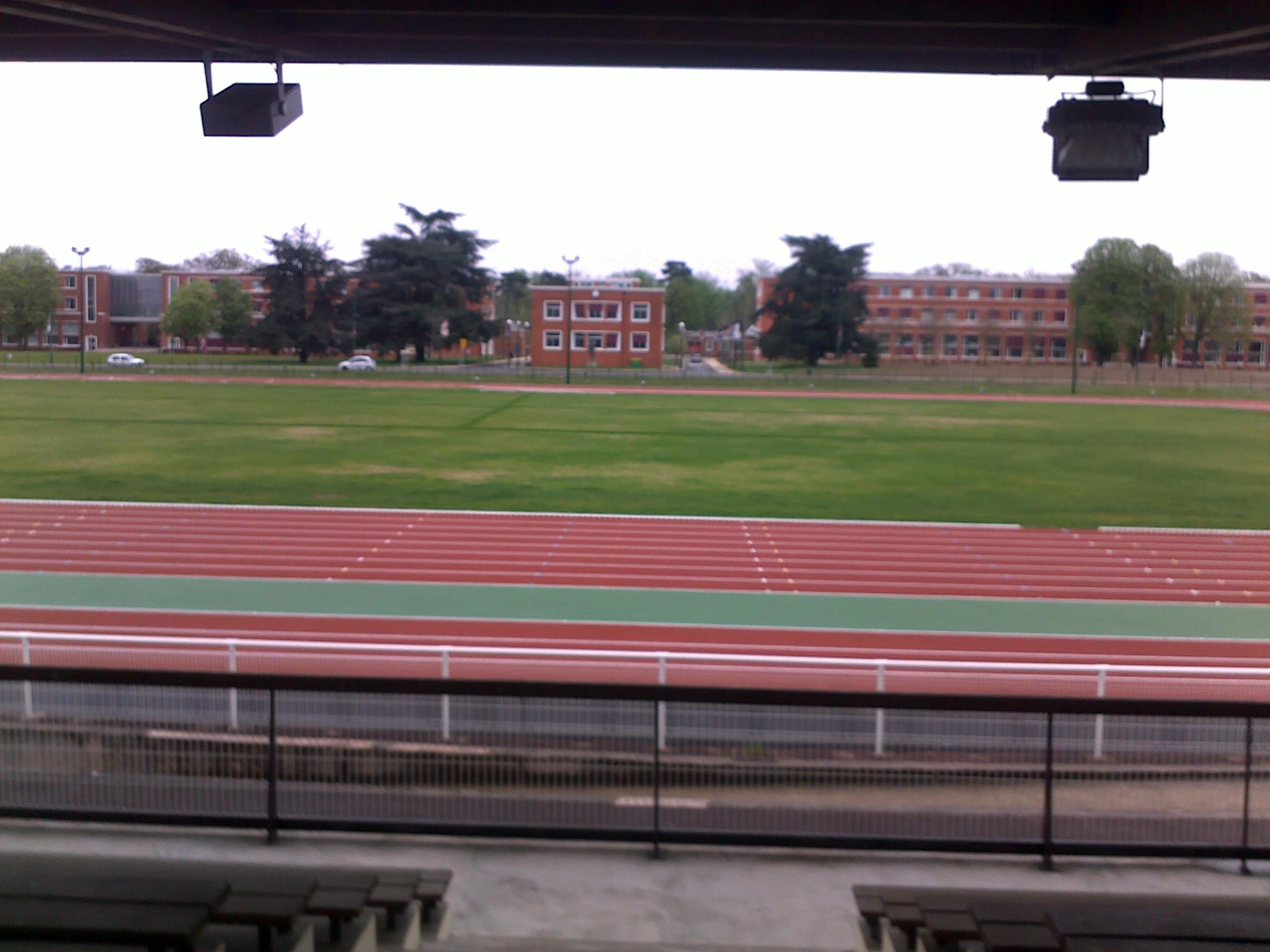 INSEP - April 3, 2011 - Athletics (track & field) outdoor stadium